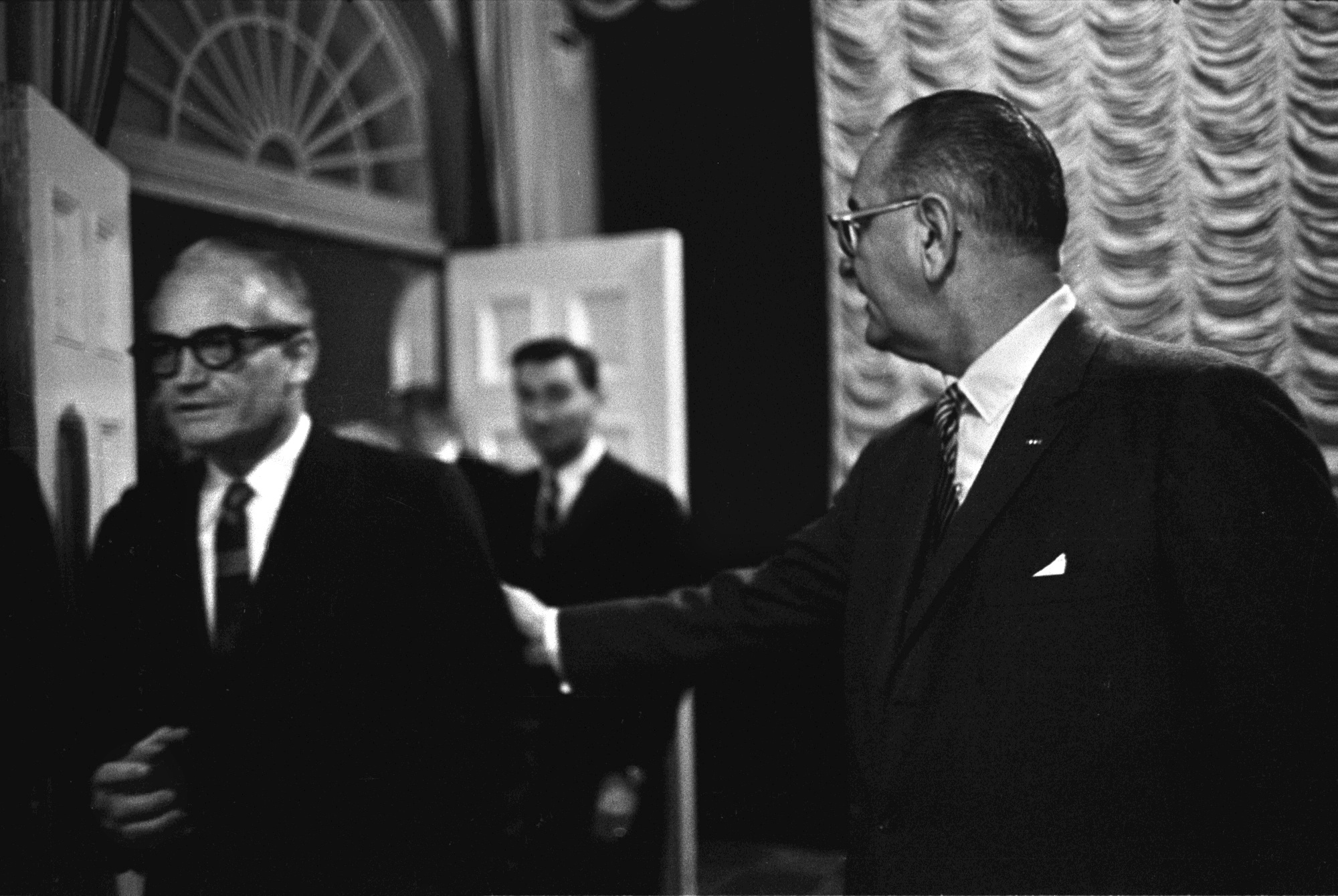 President Lyndon B. Johnson Meets with Sen. Barry Goldwater